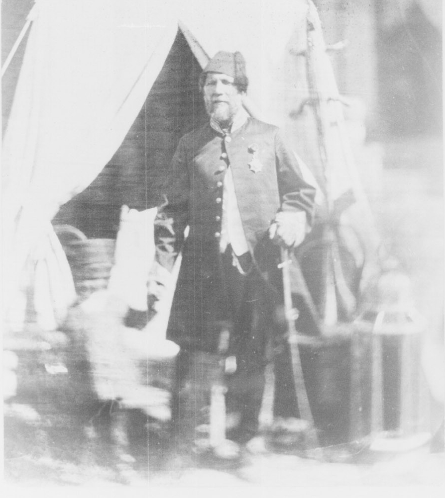 George Ntouloglou Bey, the chief of the Ottoman military service in Sudan, photographed in Khartoum by the French diplomat Louis Vossion in 1882. He was of Greek origin.